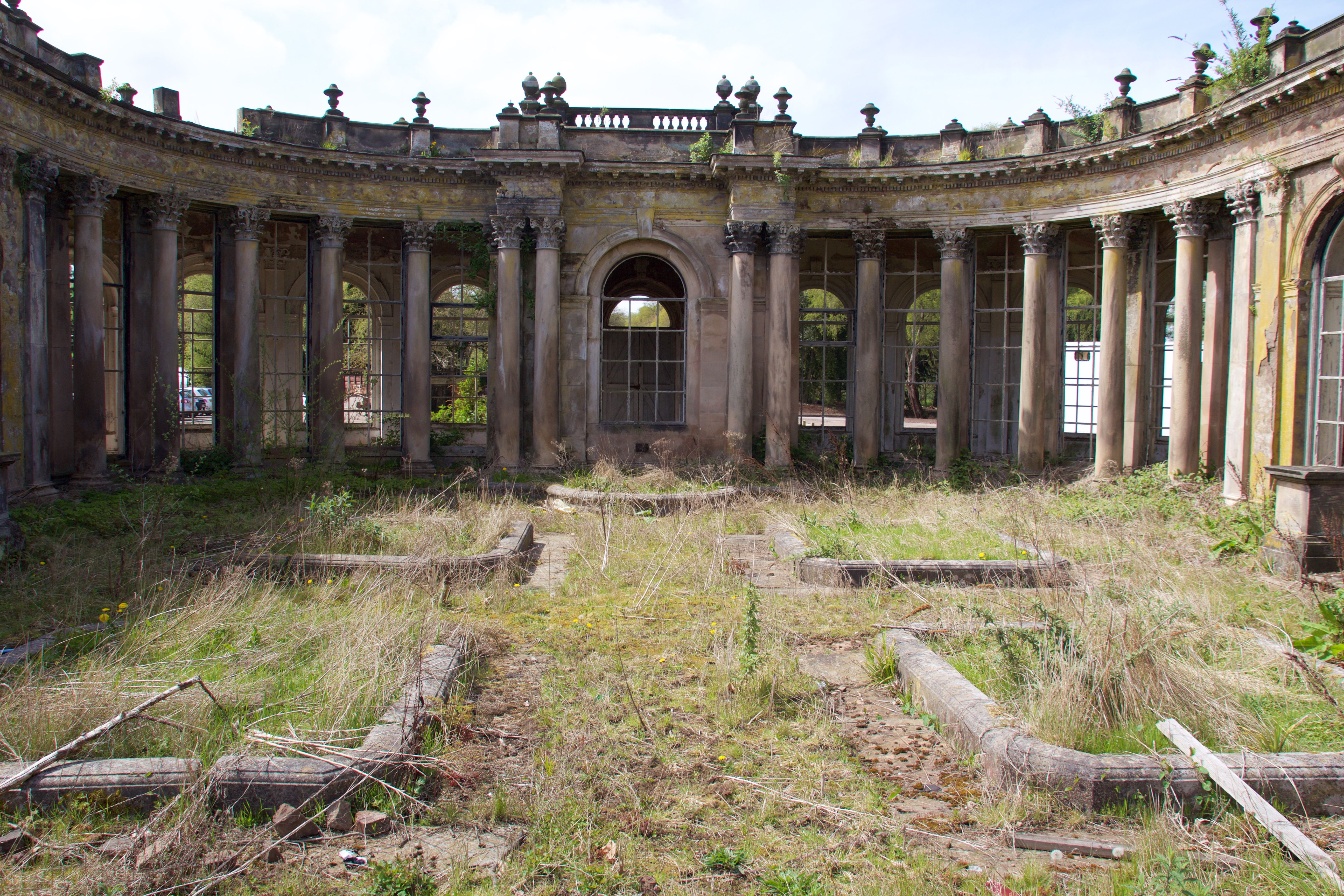 Tretham Gardens, Staffordshire